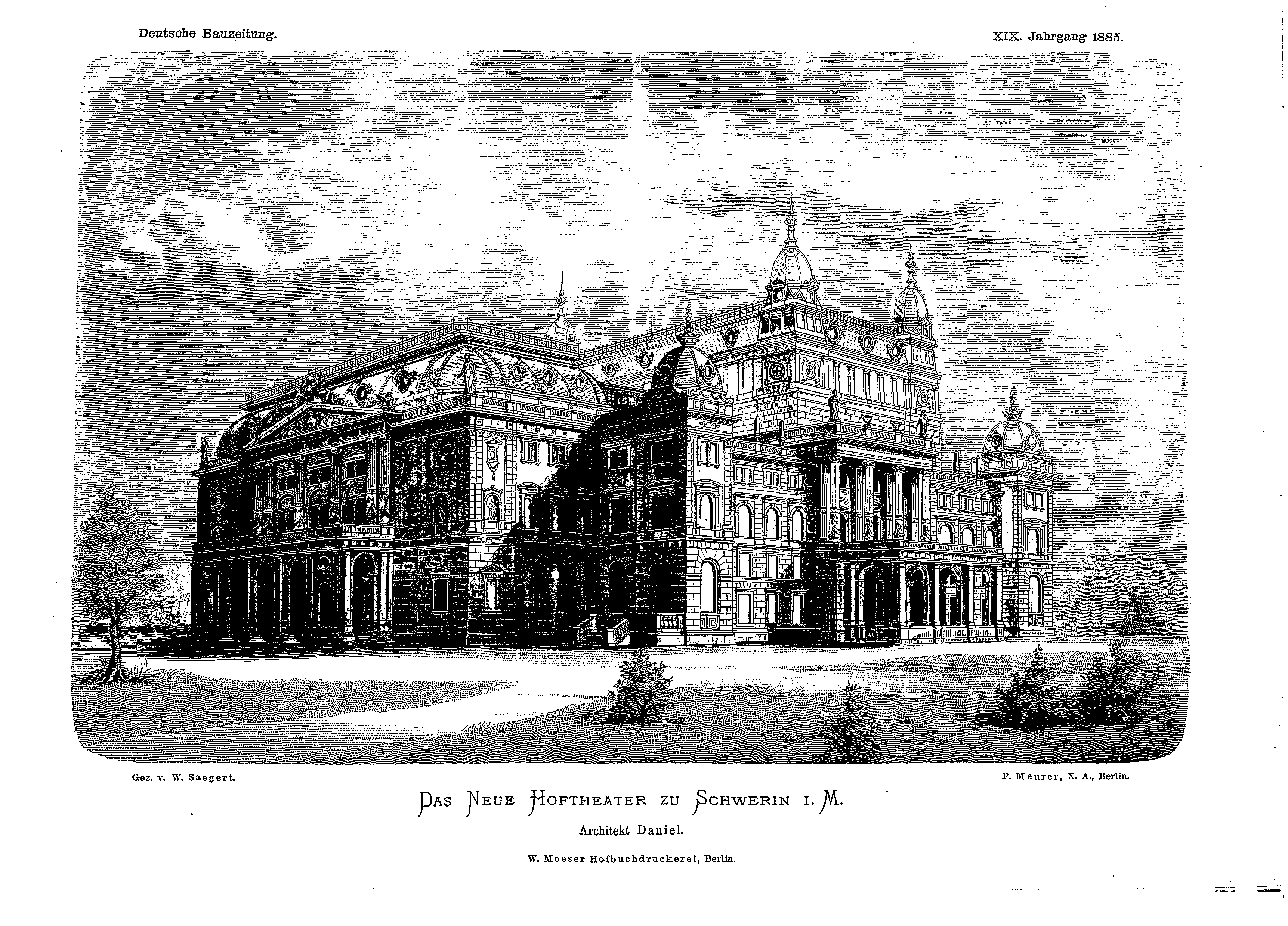 Theater in Schwerin by Georg Daniel